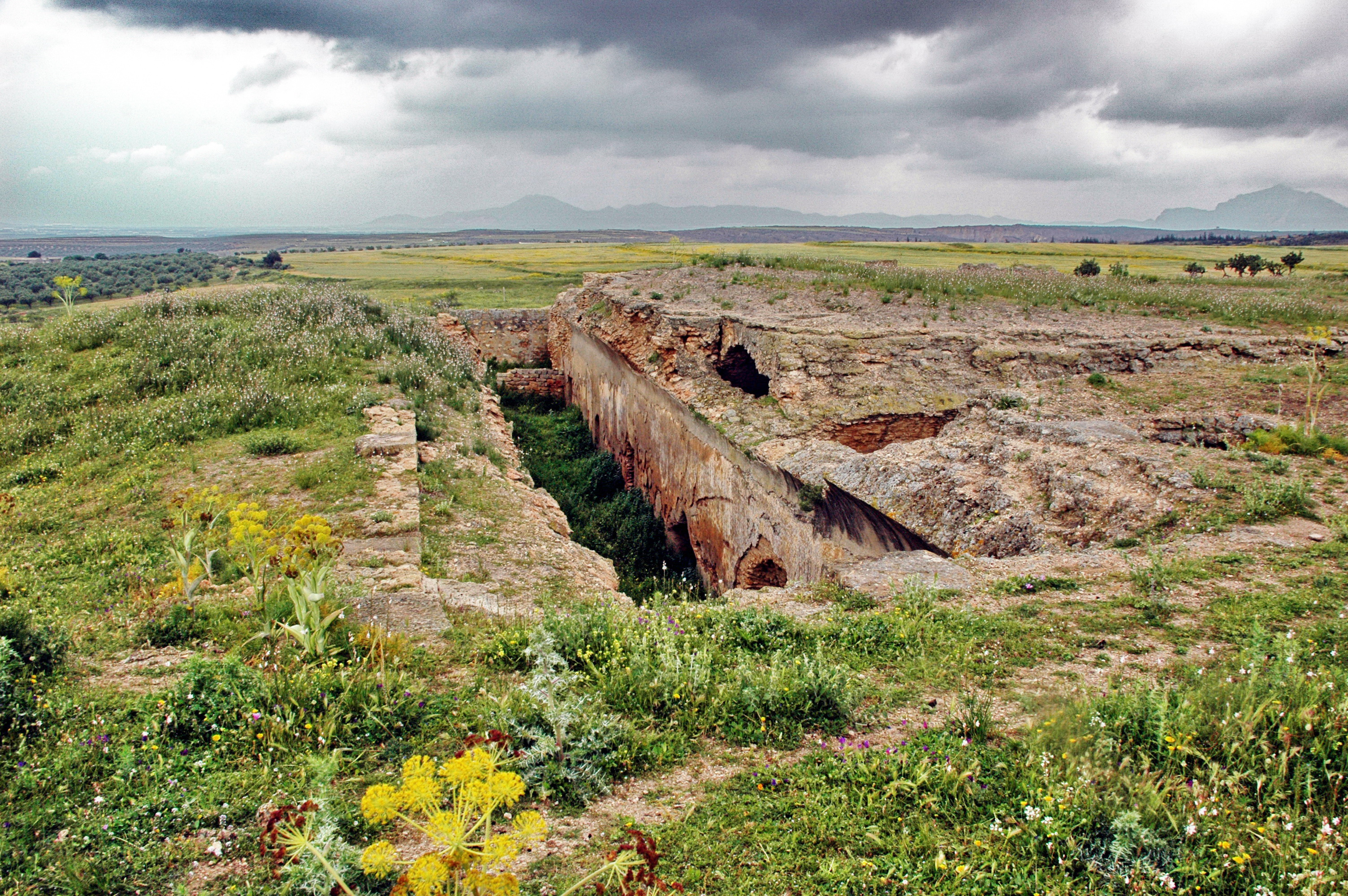 roman cisterns in Oudna-Uthina (Tunisie)